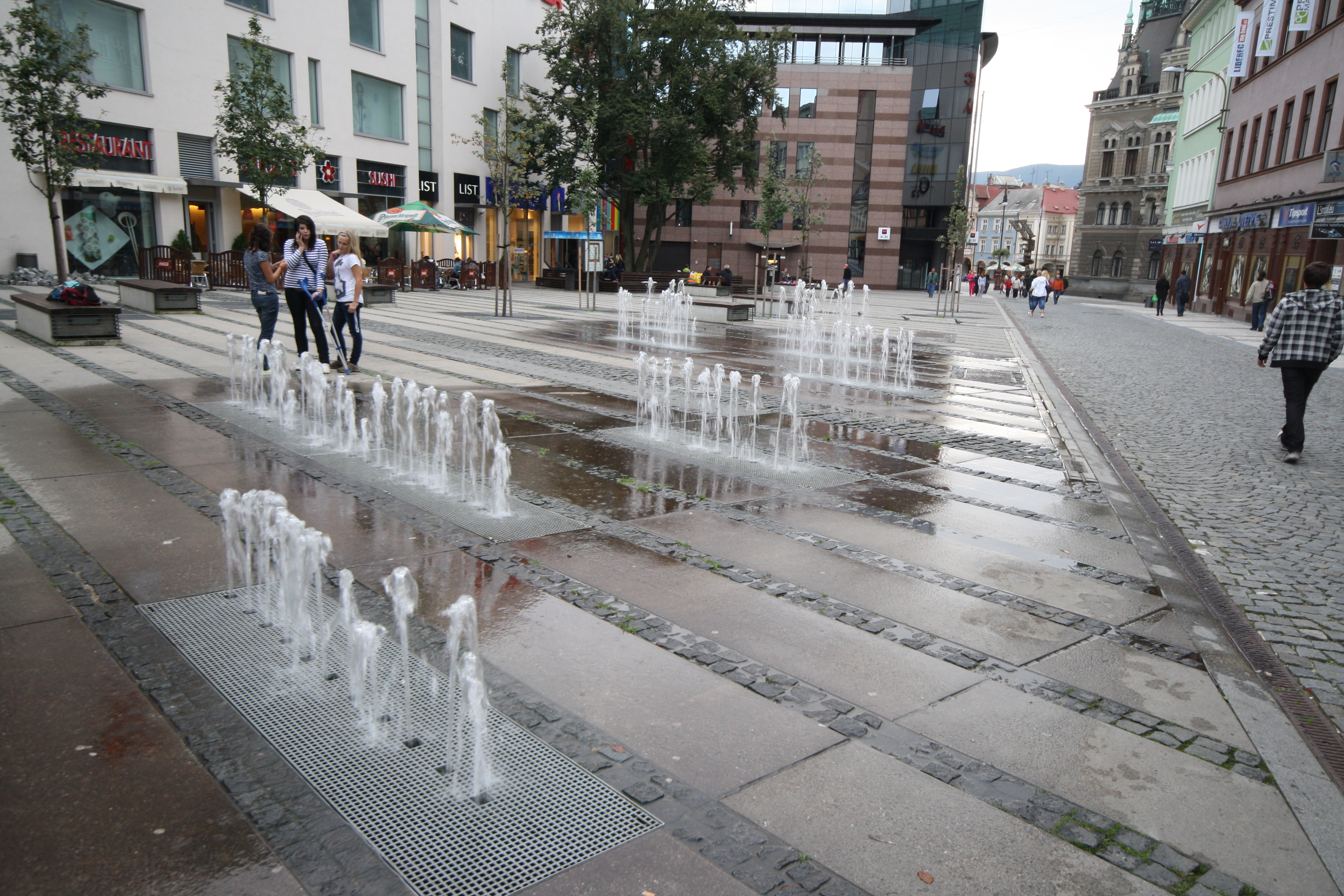 Fountain at Šalda Square in Liberec, Liberec District.